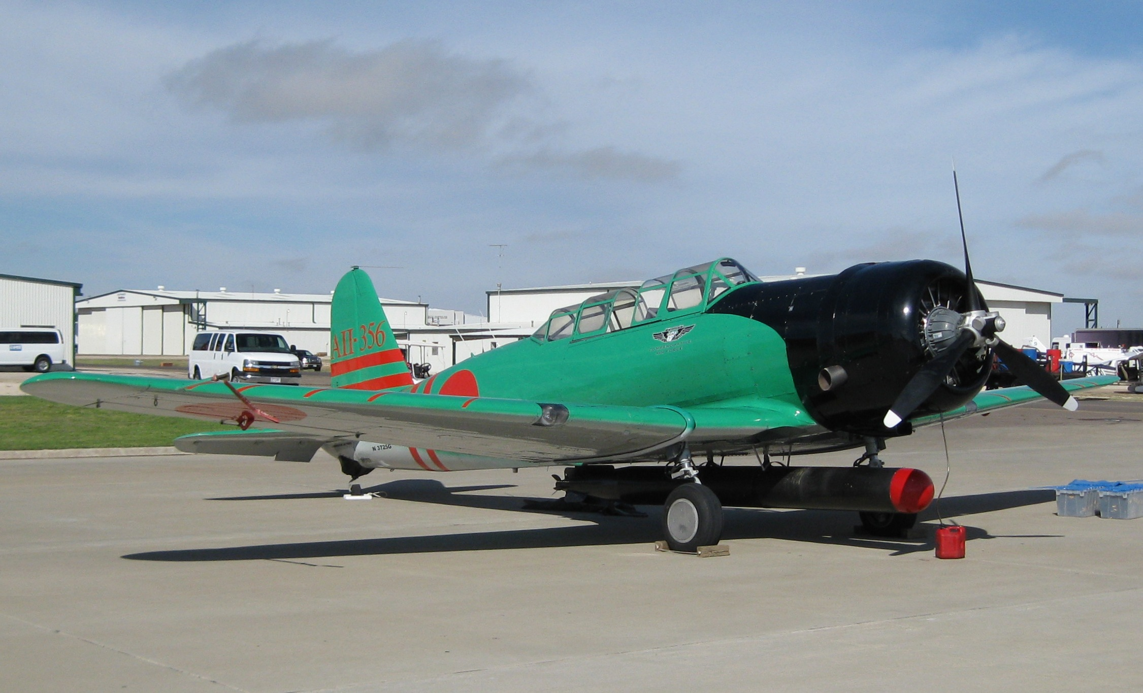 Nakajima B5N replica, Midland, Texas